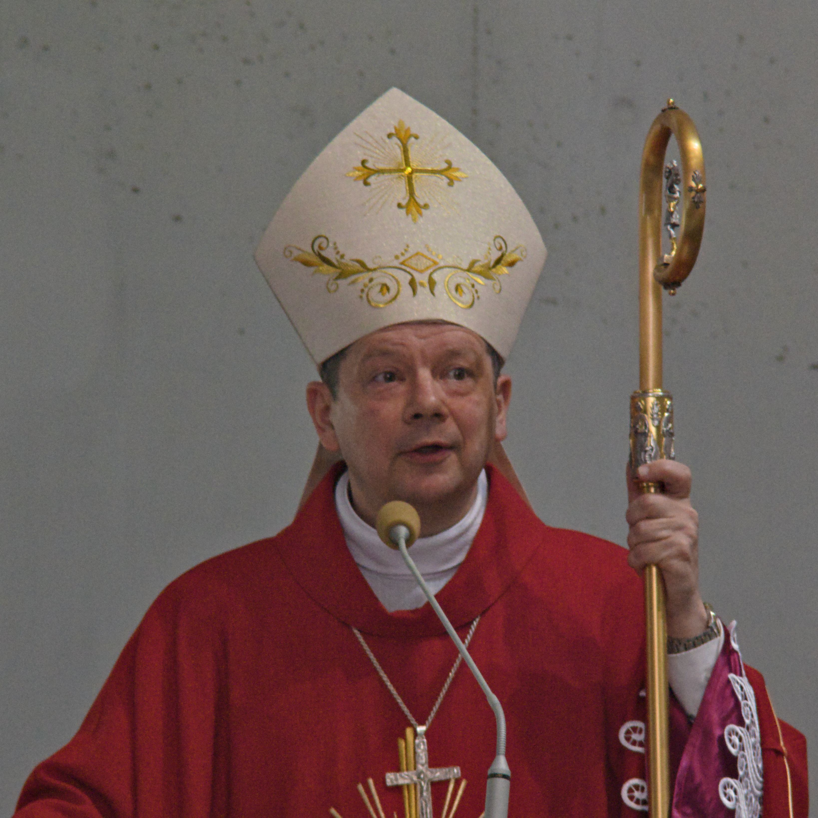 Grzegorz Olszowski (1967– ) Polish Roman Catholic bishop during confirmation mass in Our Lady of Fátima church in Katowice-Piotrowice, Bukszpanowa 26 Street, Poland.